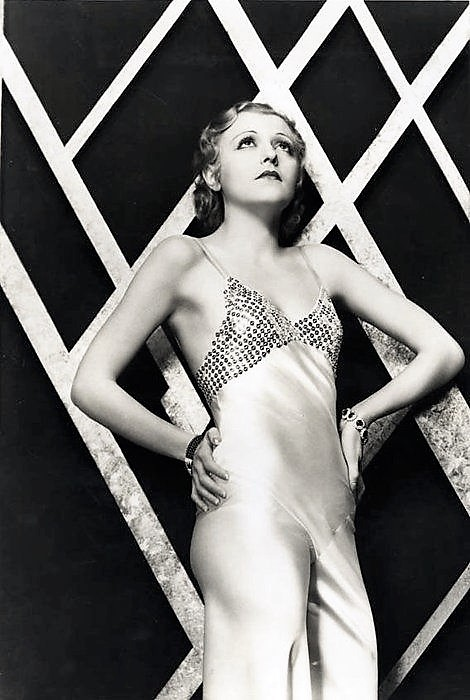 Mary Doran